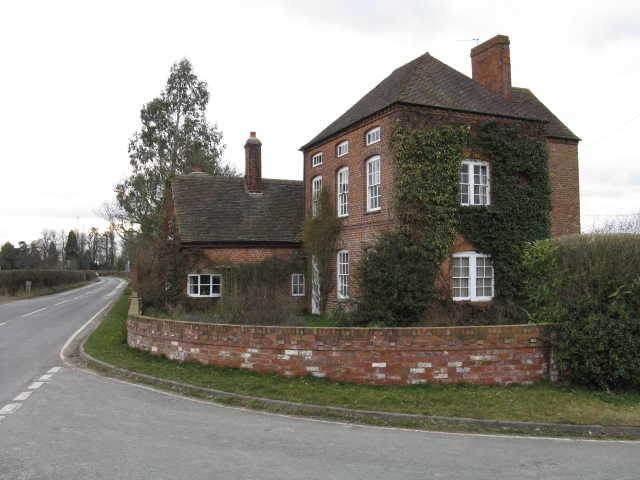 Former Public House At The Serpent Crossroads, near to Ashford Carbonell, Shropshire, Great Britain. The pub was The Serpent, as the farm opposite is still named today (2010). The arrangement of windows on the front aspect is rather unusual.